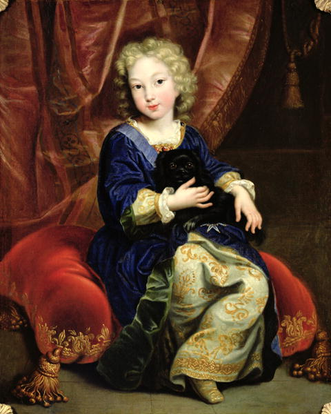 Portrait of Philippe of France (future Philip V of Spain) as a childlabel QS:Len,"Portrait of Philippe of France (future Philip V of Spain) as a child" label QS:Lde,"Porträt Philipps V. von Spanien als Kind"